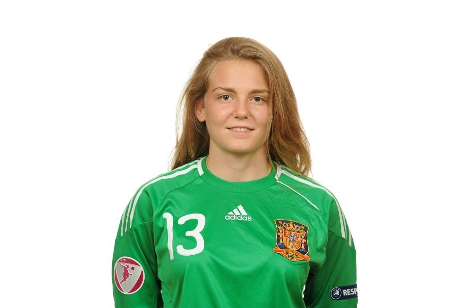 Esther Sullastres in Antalya, Turkey